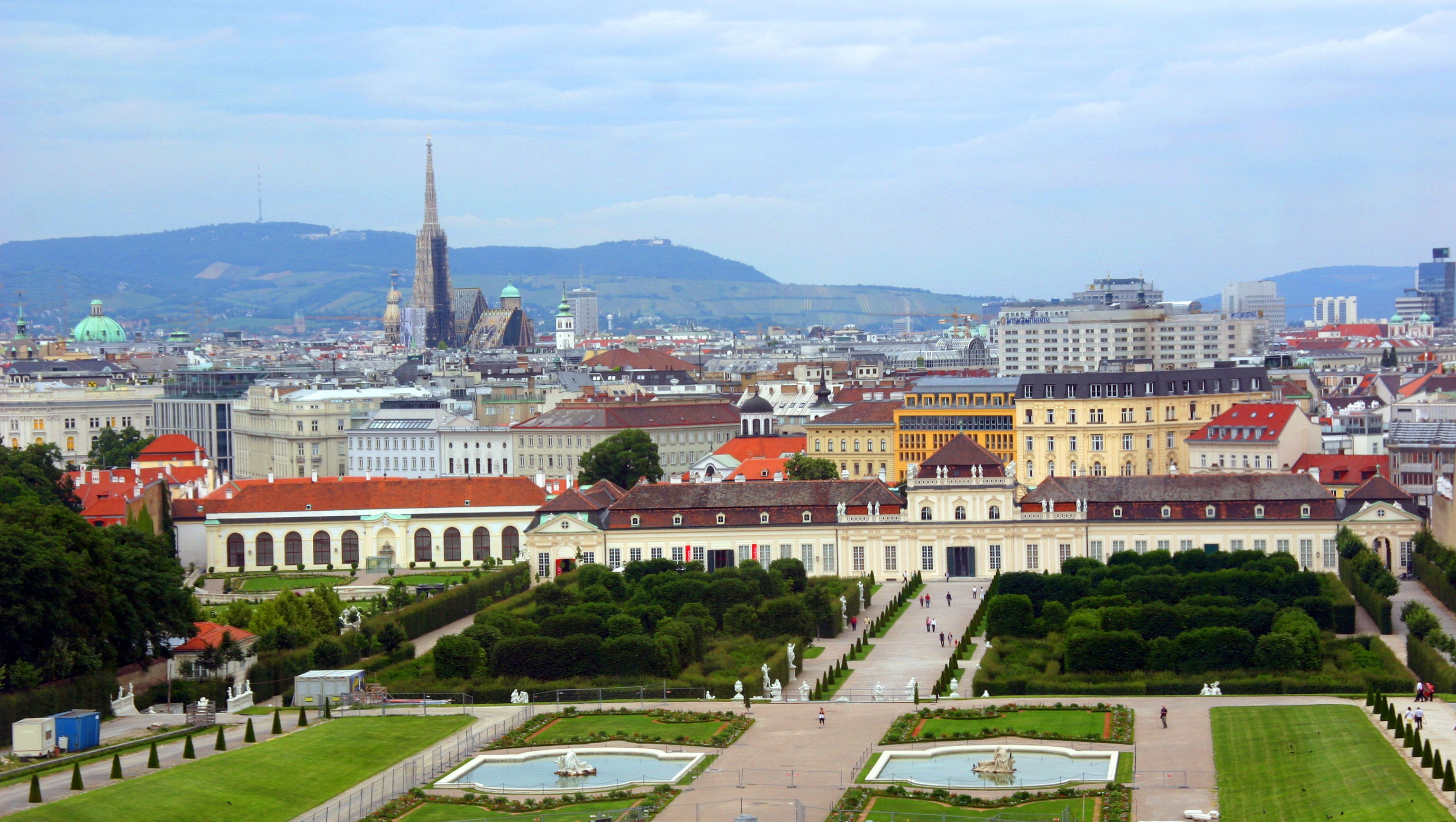 View of Vienna from Upper Belvedere